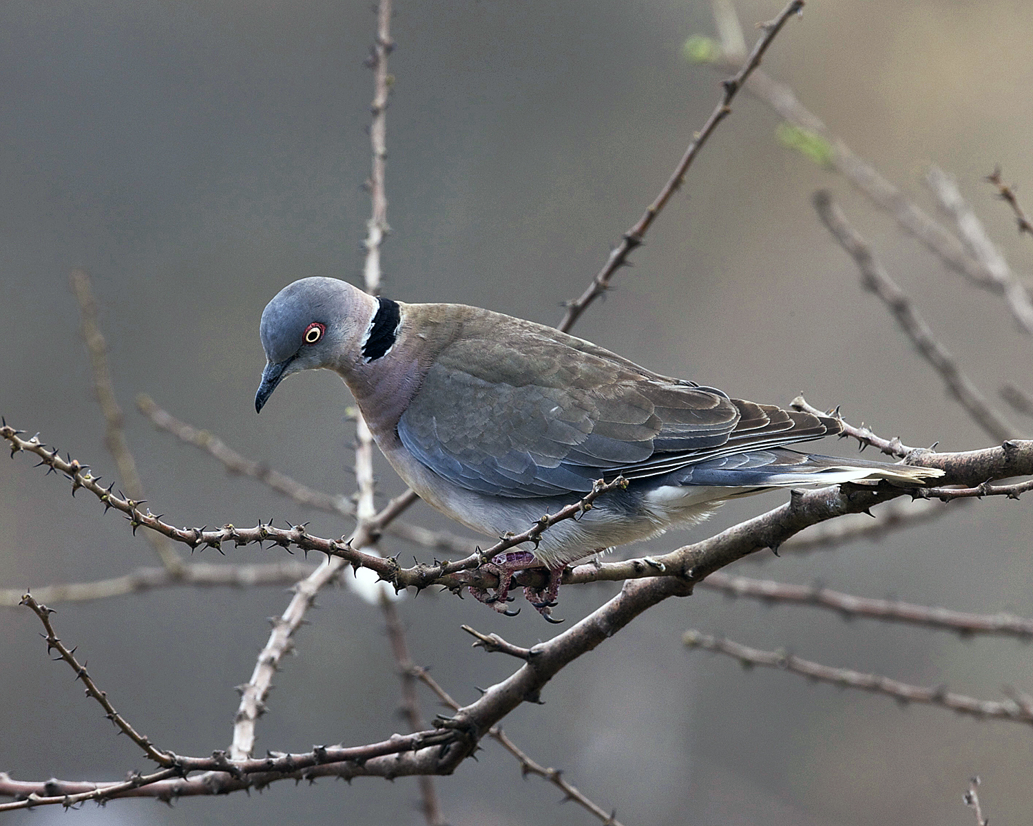 A Mourning Collared Dove near Kambi ya Tembo, Tanzania.